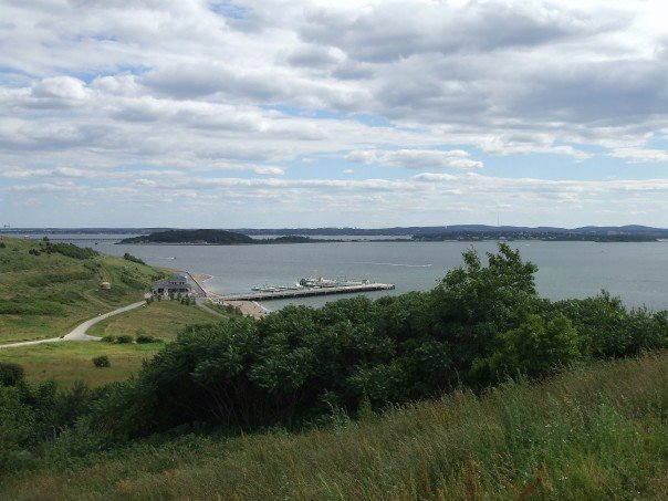 This image of the marina, cafe, and visitor's center on Spectacle Island (with Thompson Island in the background) was created on 23 June 2007 by User:DickClarkMises and is released by the same into the public domain.